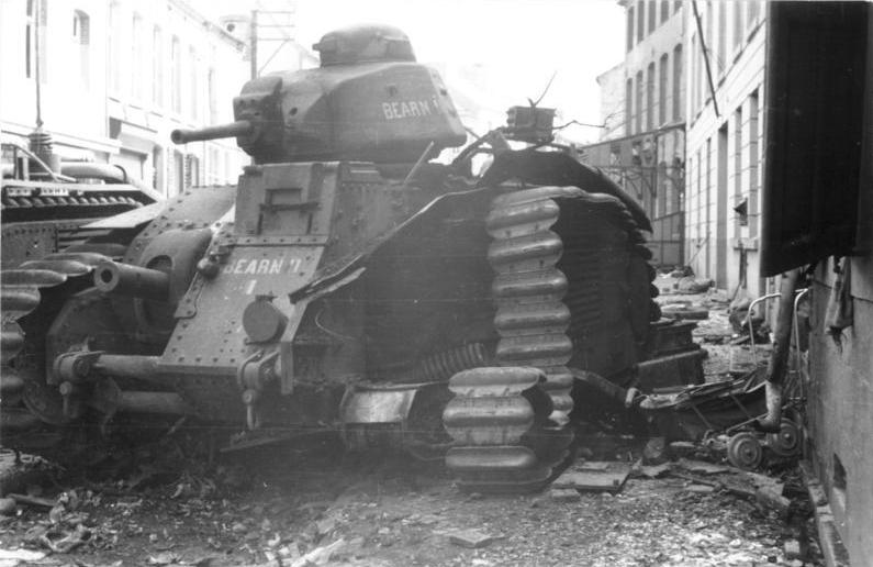 A french "Char B1" tank of the 37th battalion with the designation "Bearn II", after it has been destroyed by its own crew on May the 16th 1940, in Beaumont, Belgium